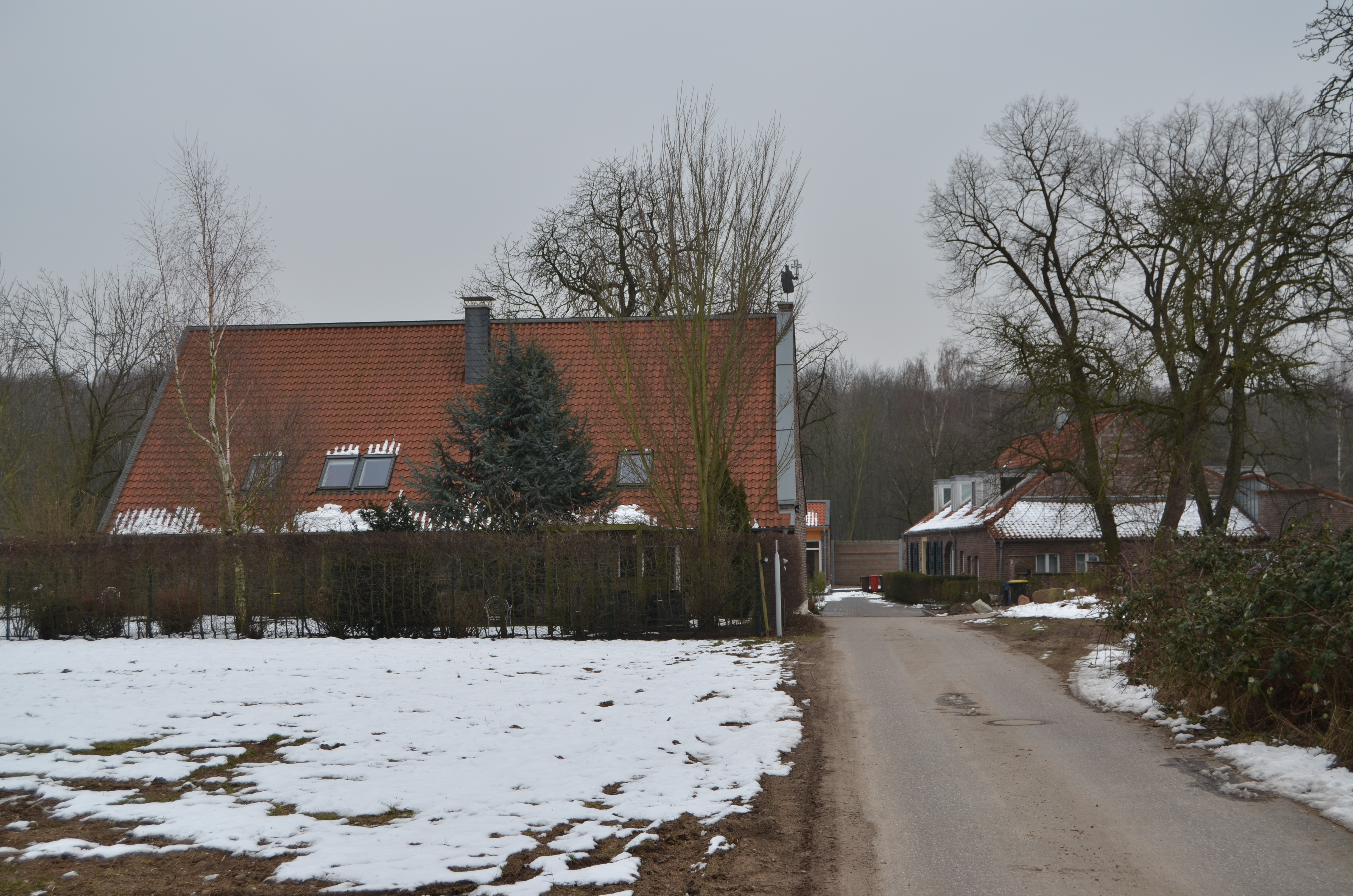 Krefeld (North Rhine-Westphalia, Germany) – district Verberg – farm Kamphof This image shows a heritage building in Germany, located in the North Rhine-Westphalian city Krefeld (no. 922). This photograph was taken with a Nikon D7000.